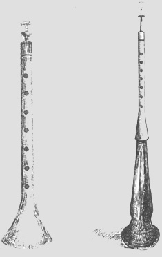 Sorna (woodwind instrument). (original:Ancient Persian/Iranian woodwind musical instrument called as Sorna)